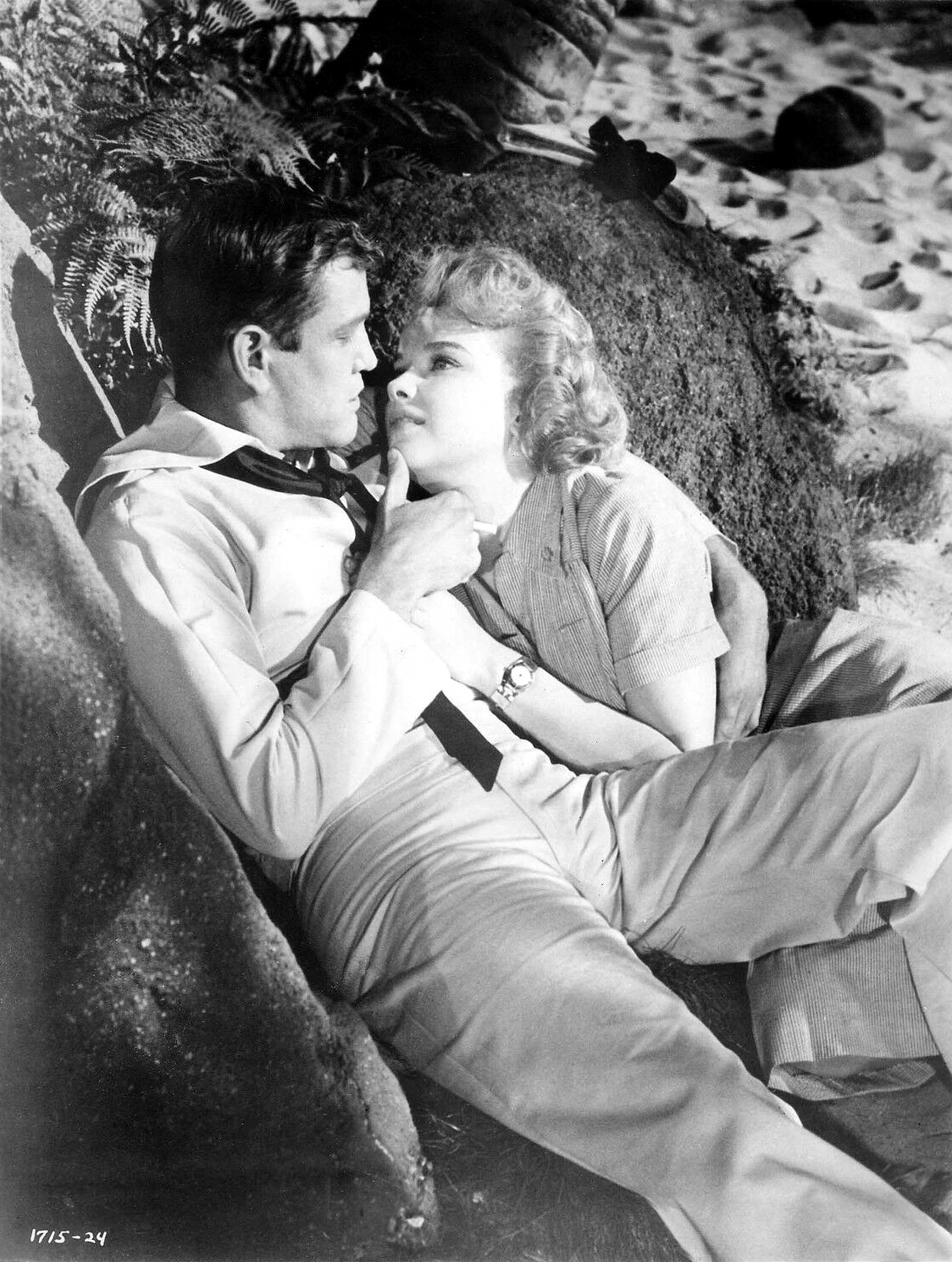 Publicity photo of Earl Holliman and Anne Francis for the United Artists feature Don't Go Near The Water